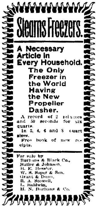 E. C. Stearns & Company - Freezers - June 17, 1897